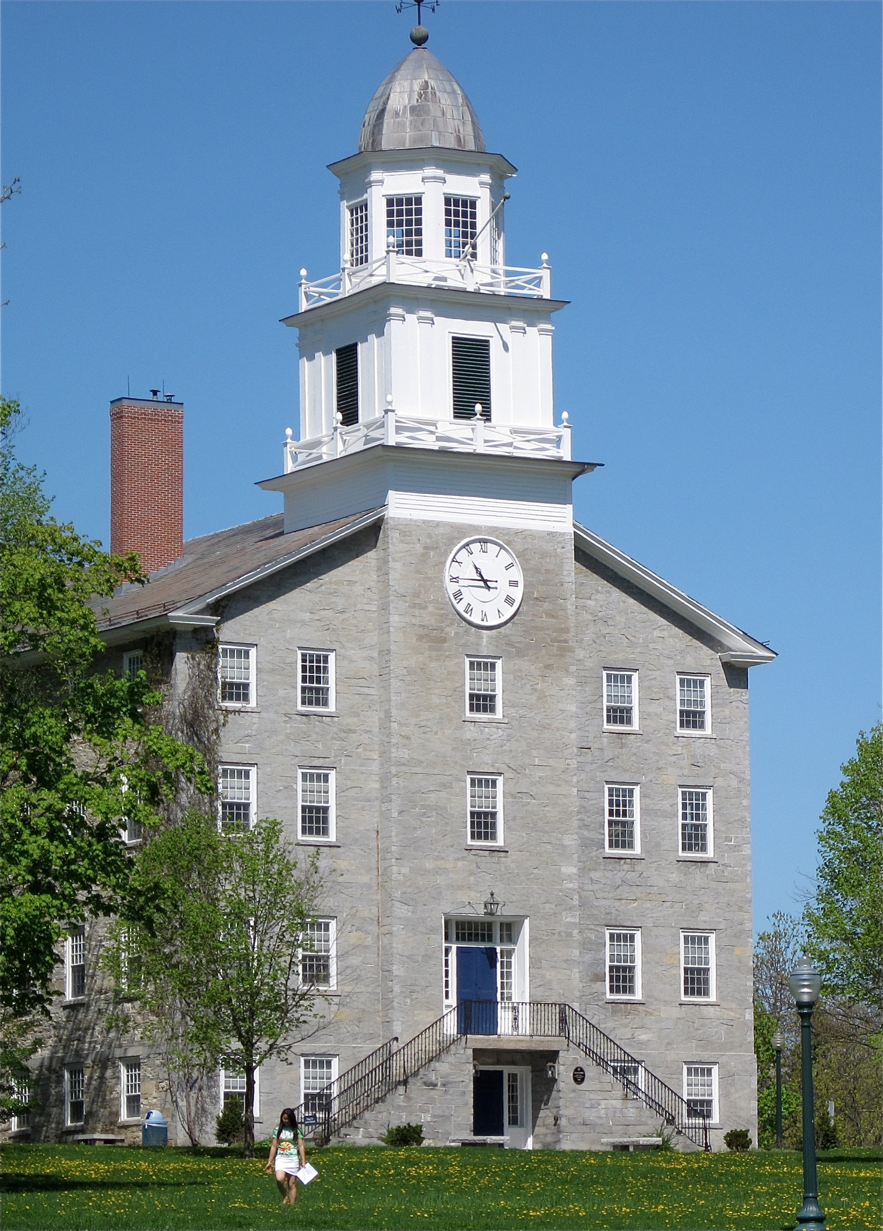 Building of the college in Middlebury, Vermont, USA